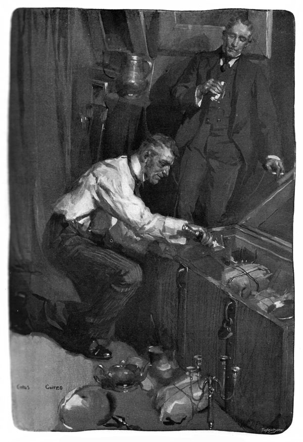 Pall Mall illustration by Cyrus Cuneo of the Raffles short story "The Chest of Silver" by E. W. Hornung. This story was first published in the US in Collier’s Weekly in the January 21, 1905 issue, and in the February 1905 issue of Pall Mall Magazine in the UK.